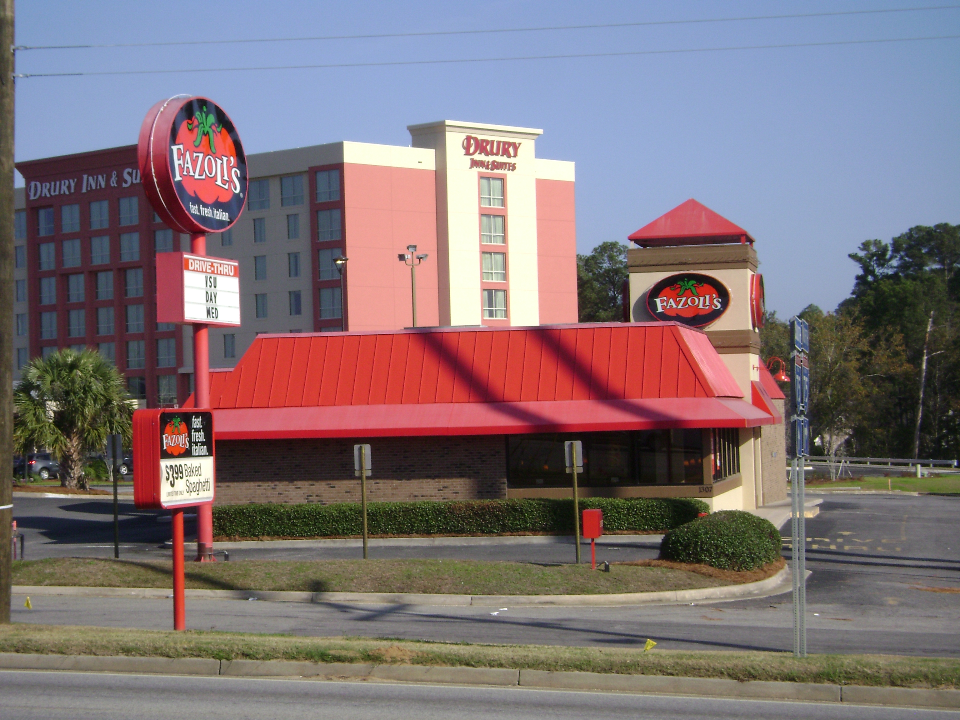 Fazoli's, 1307 St Augustine Rd, Valdosta, GA 31601